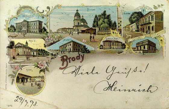 Old postcard of Brody, city in western Ukraine. Dated from 1898, times of Austro-Hungarian rule in western Ukraine. Inscriptions are in Polish (official language in the area in those times).